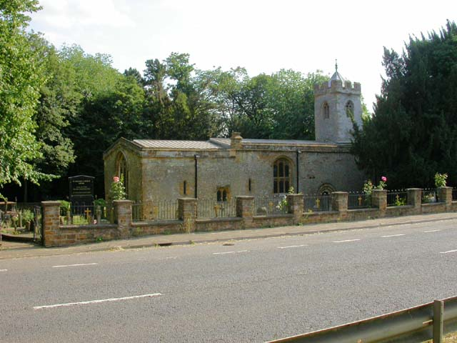 St Michael's Church, Upton. The black noticeboard with gold writing to the left of the church states that the building is in the care of the Churches Conservation Trust. Picture taken from the central strip of the A4500 dual carriageway.